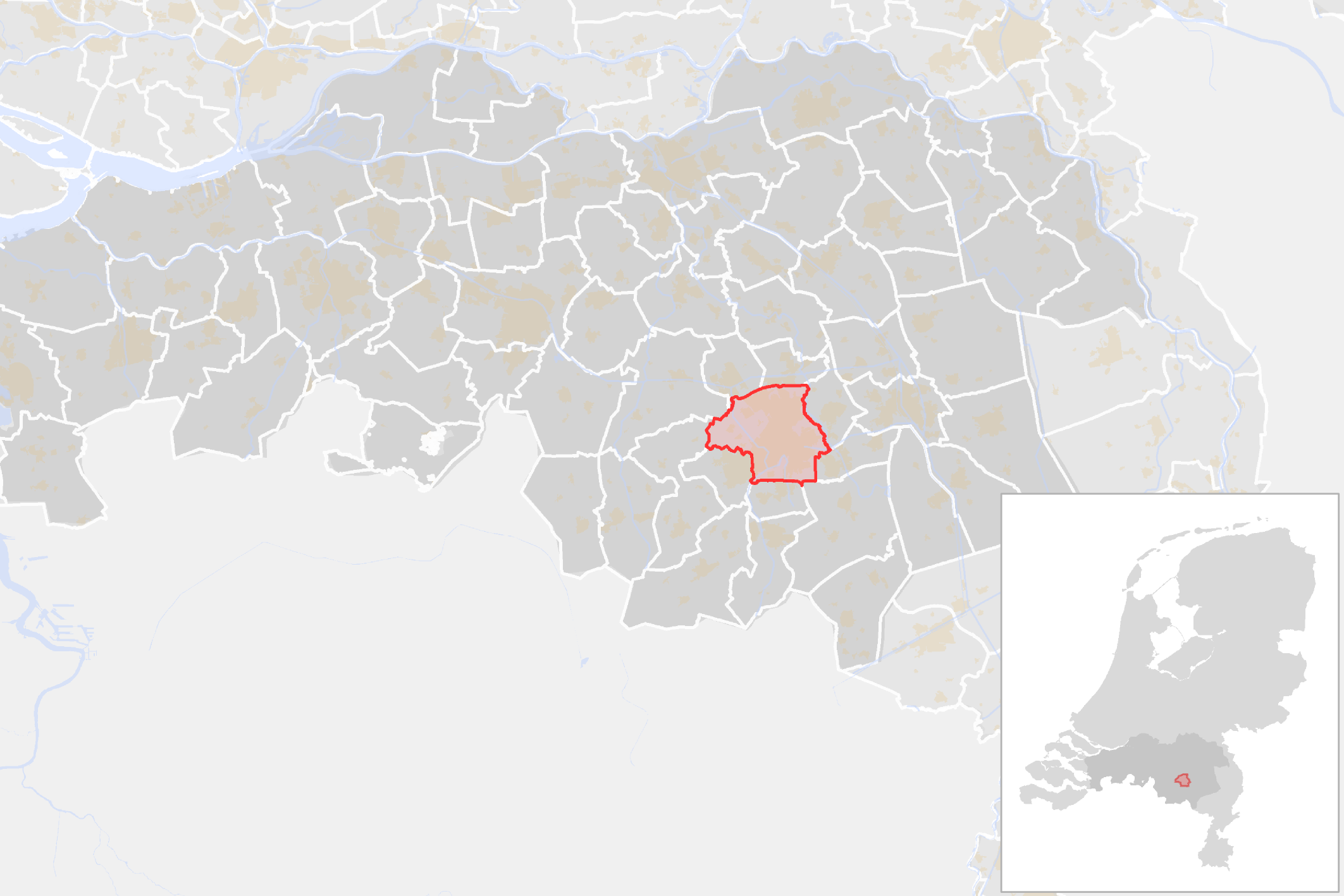 Locator map showing municipality boundary of one of the 390 Dutch municipalities (as of 2016)